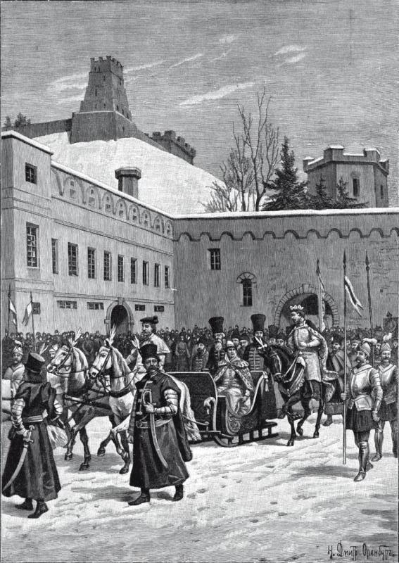 Grand Duke of Lithuania Alexander meets his bride Helena, the daughter of Ivan III, in Vilnius 1495.